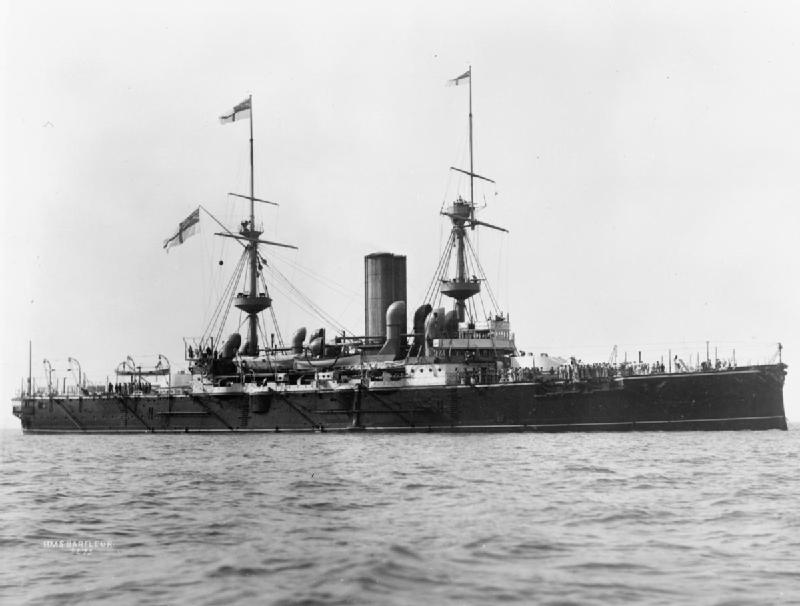 Symonds and Co Collection H. M. S. BARFLEUR, 1895.